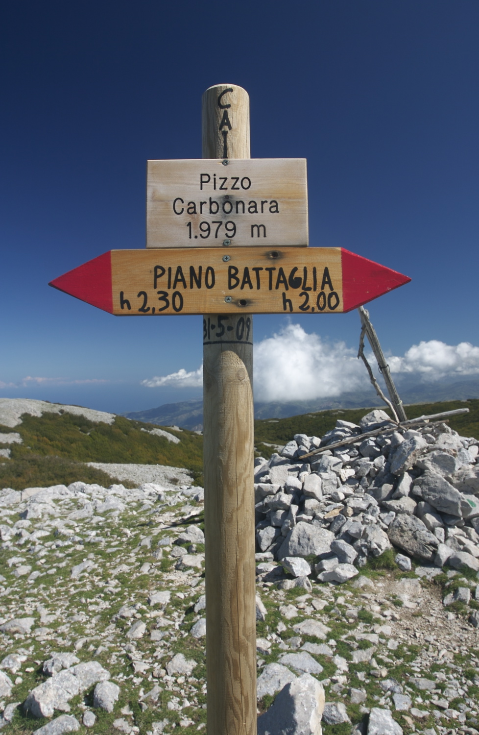 Pizzo Carbonara - Summit cross and sign post